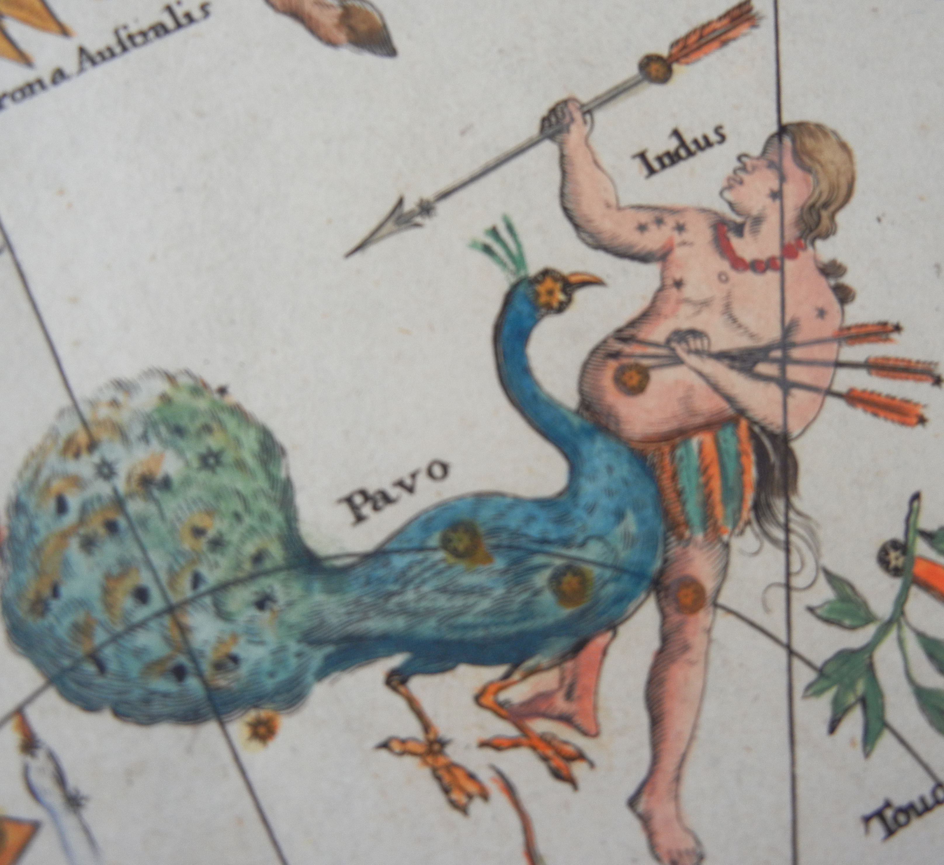 Constellations Pavo and Indus, from a chart of the southern celestial hemisphere